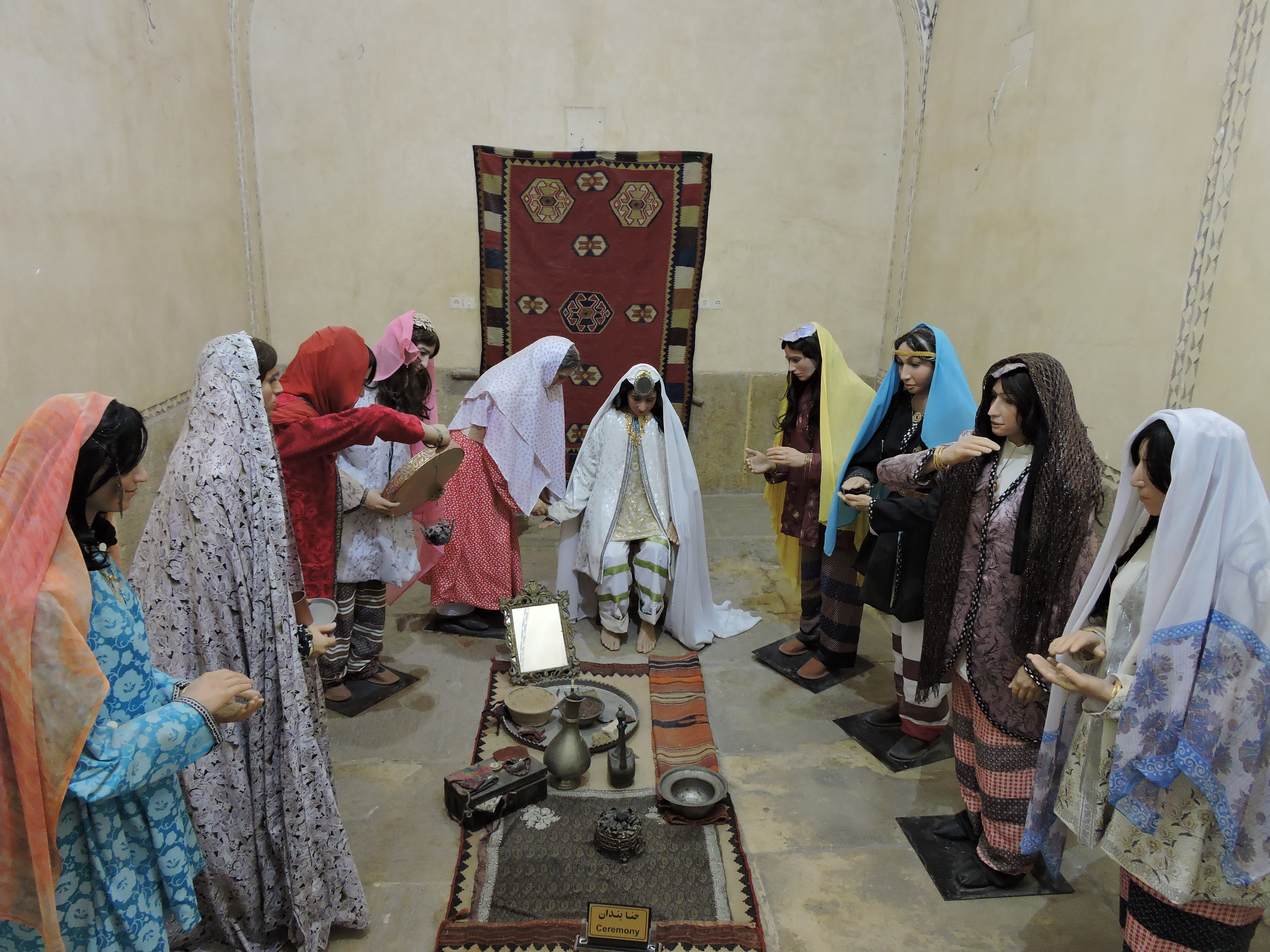 Hanā Bandān